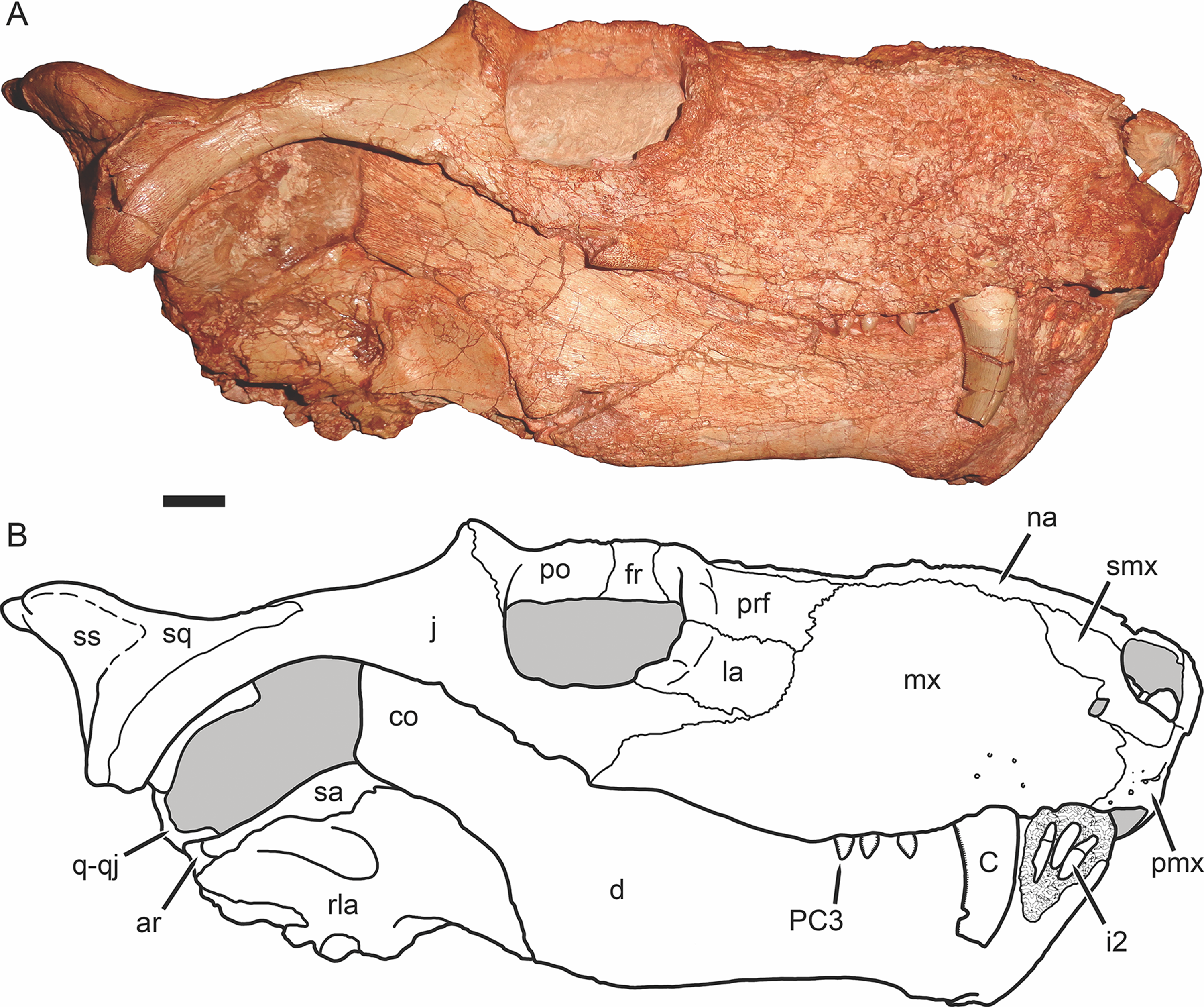 Holotype of Gorynychus masyutinae in right lateral view. (A) Photograph and (B) interpretive drawing of skull (KPM 346). Abbreviations: ar, articular; C, upper canine; co, coronoid process of dentary; d, dentary; fr, frontal; i, lower incisor; j, jugal; la, lacrimal; mx, maxilla; na, nasal; pmx, premaxilla; prf, prefrontal; PC, upper postcanine; po, postorbital; q-qj, quadrate-quadratojugal complex; rla, reflected lamina of angular; sa, surangular; smx, septomaxilla; sq, squamosal; ss, squamosal sulcus. Gray coloration indicates matrix, patterning indicates eroded or broken bone surface. Scale bar equals 1 cm. From: Kammerer CF, Masyutin V. (2018) A new therocephalian (Gorynychus masyutinae gen. et sp. nov.) from the Permian Kotelnich locality, Kirov Region, Russia. PeerJ 6:e4933